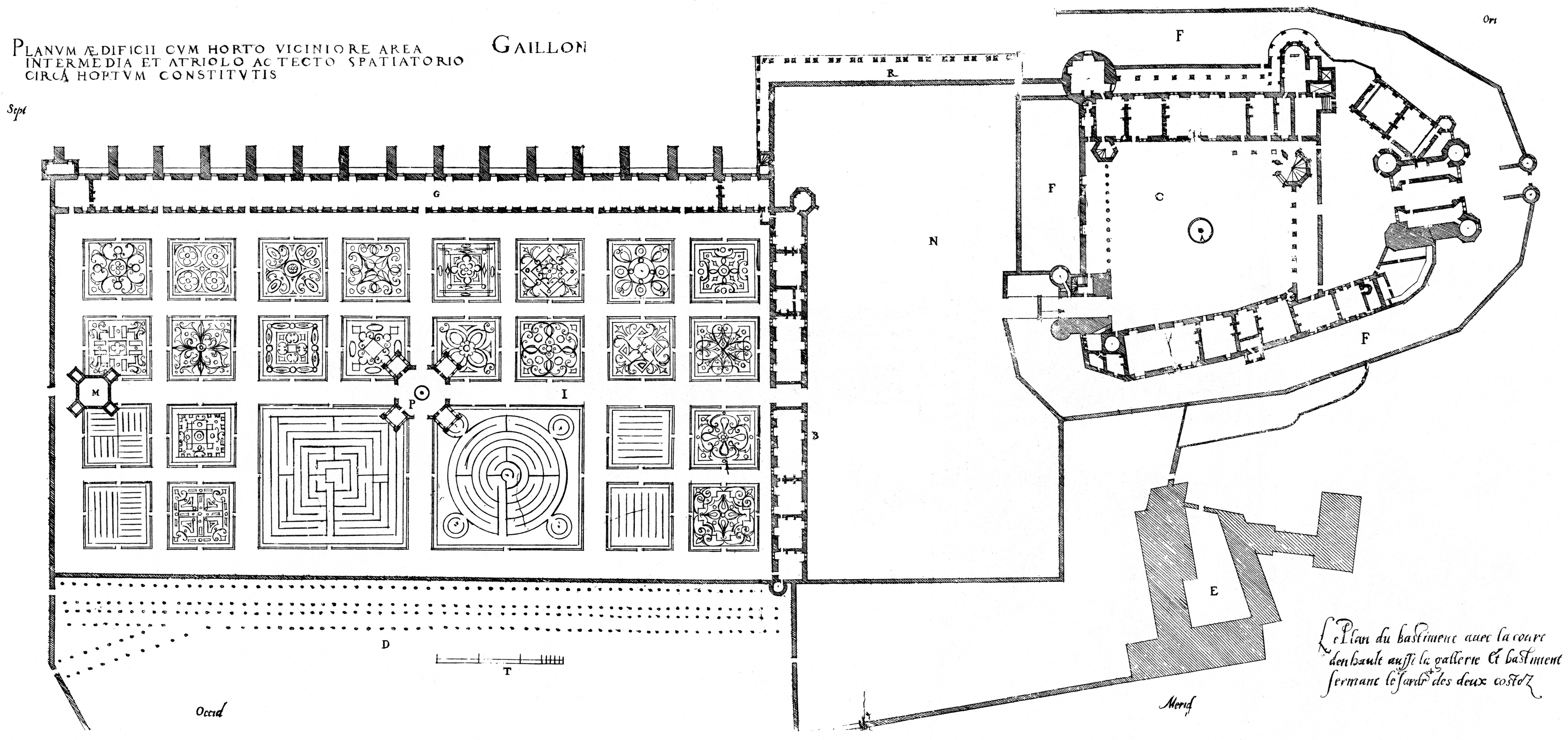 Engraving from Le premier volume des plus excellents Bastiments de France by Jacques I Androuet du Cerceau. Plan of the Château de Gaillon and its Gallery Garden